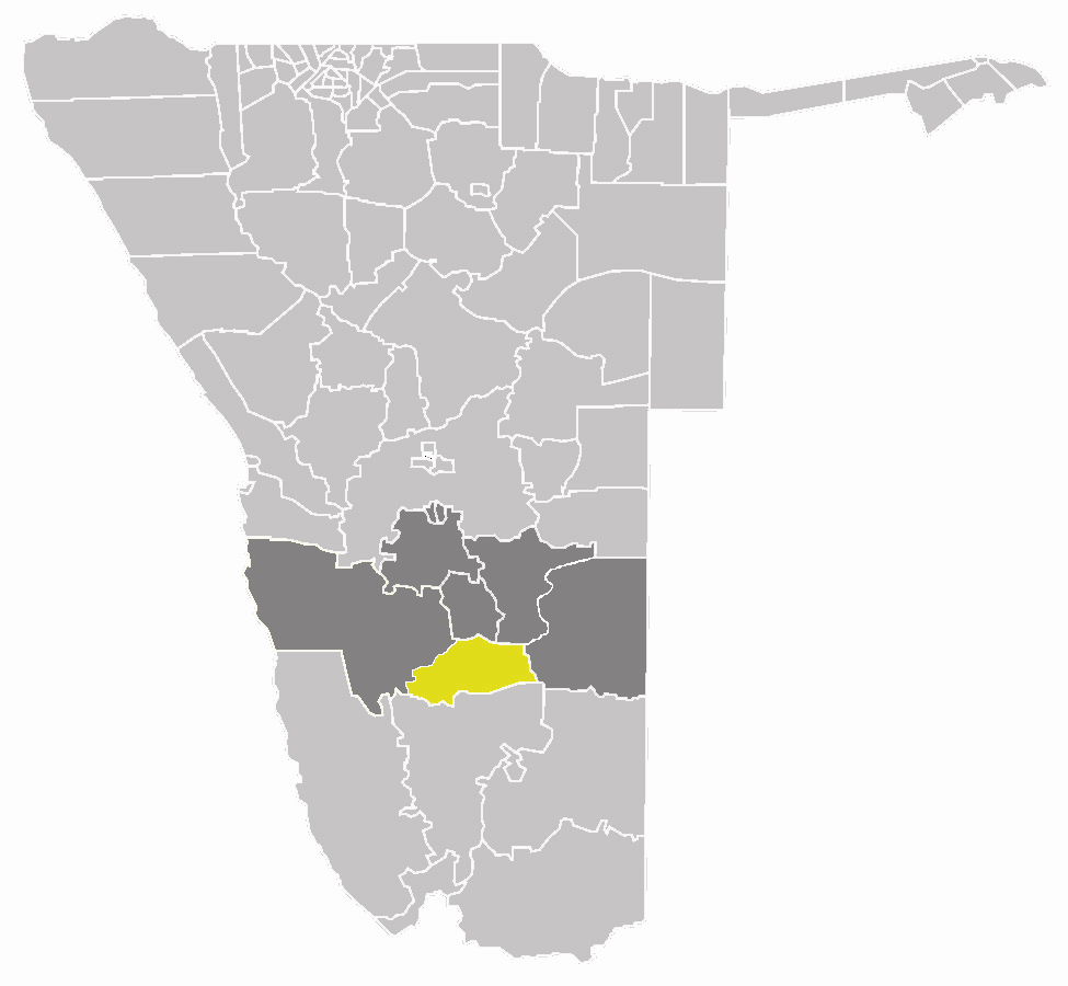 map of the Gibeon constituency within the Hardap region, Namibia